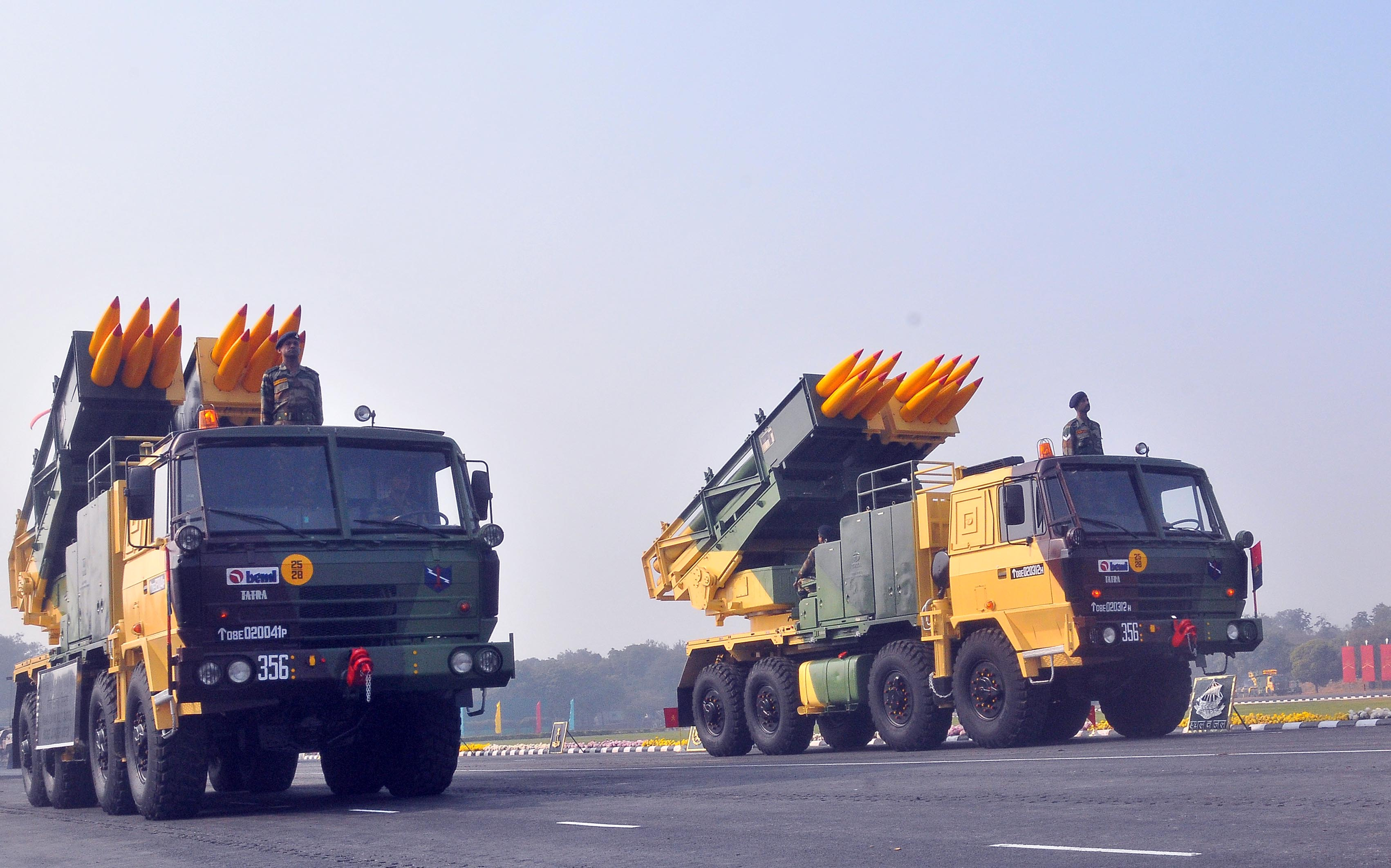 Pinaka 214 MM MULTI BARREL ROCKET LAUNCHER SYSTEM